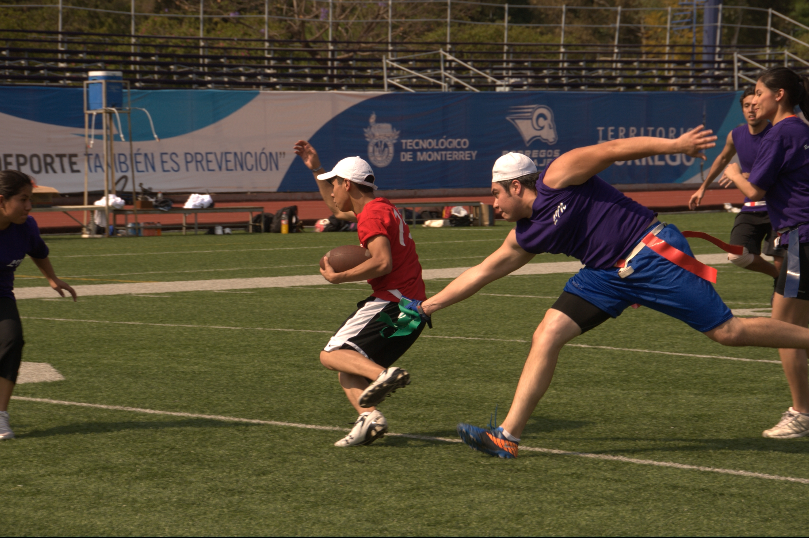 football flag event of Borregos de Plata for bussiness students of ITESM-Campus Ciudad de Mexico